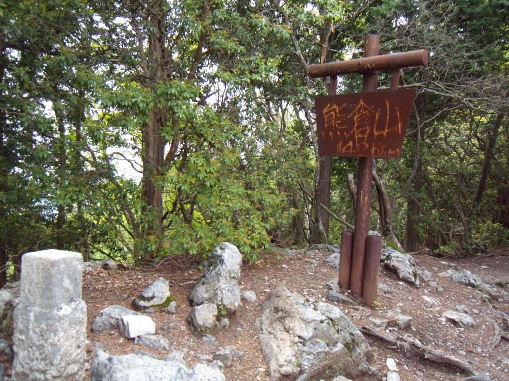 Peak of Mount Kumakura (Kumakurasan) in Saitama, Japan